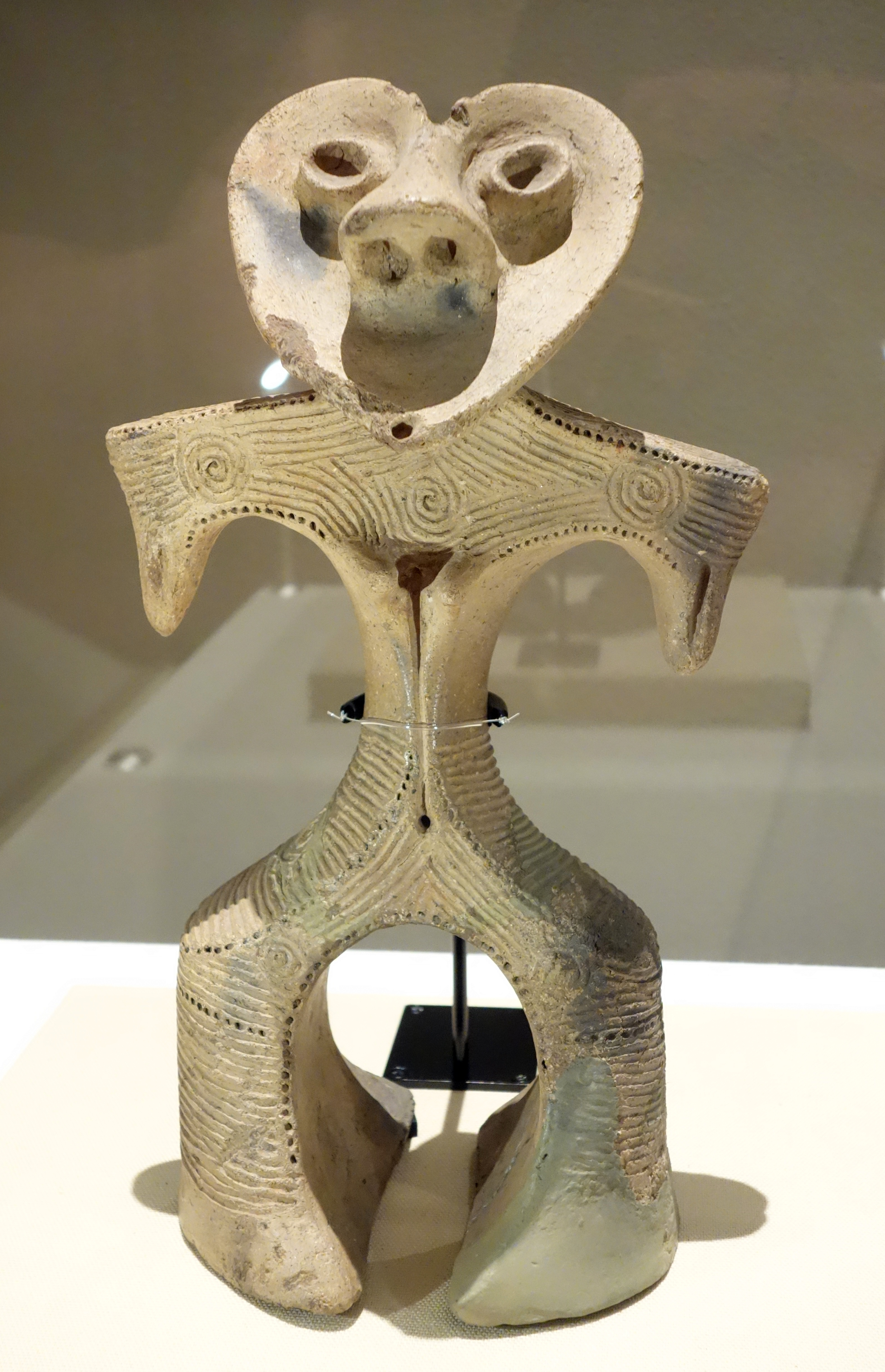 Exhibit in the Tokyo National Museum, Tokyo, Japan. This artwork is old enough so that it is in the public domain.